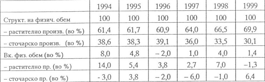 Structure of the agriculture in Macedonia